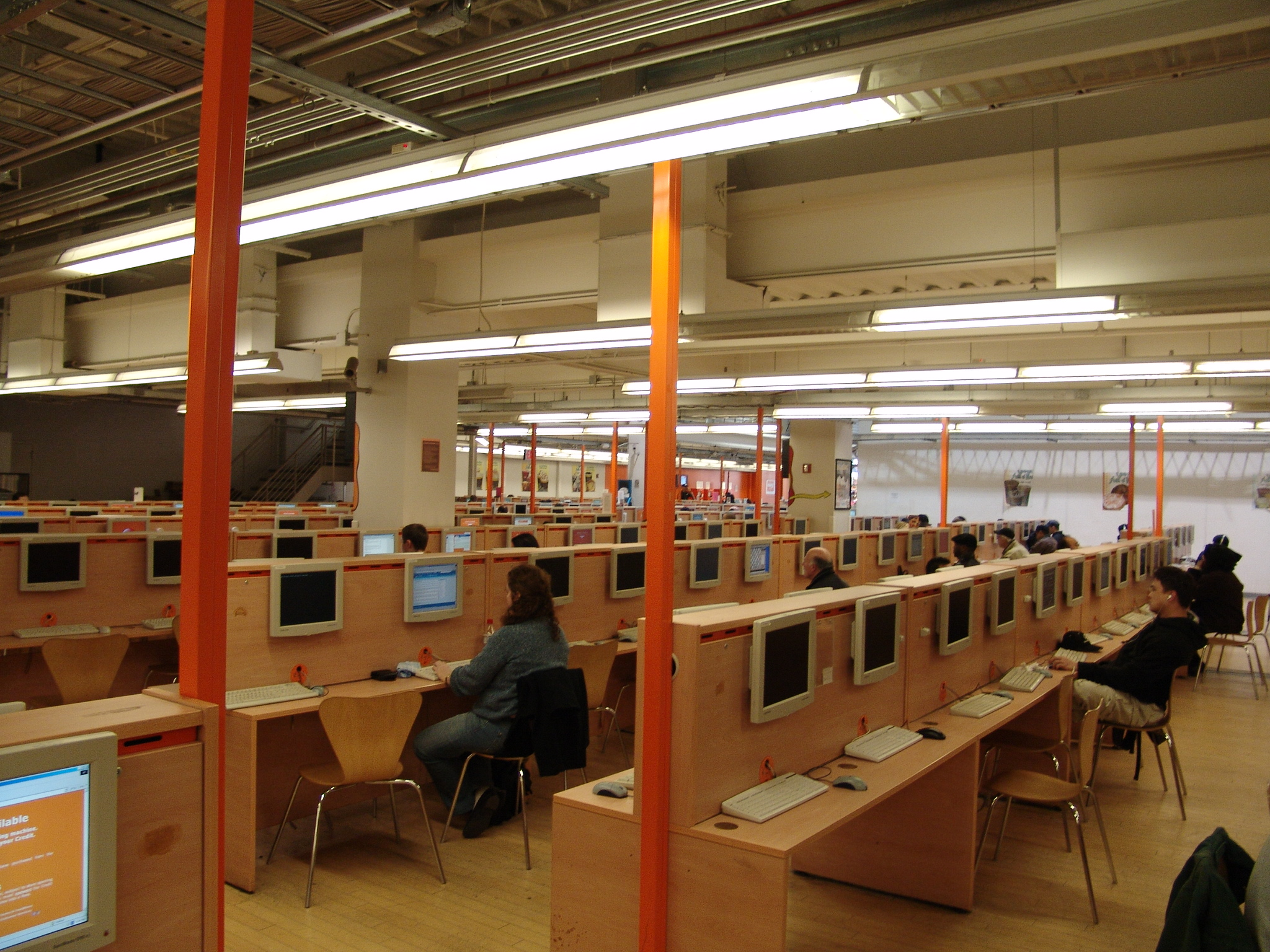 One giant internet cafe in New-York City... and I wasn't standing completely in the back of the place!